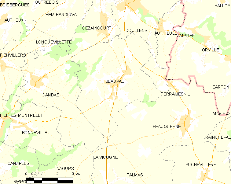 Map of French municipality Beauval